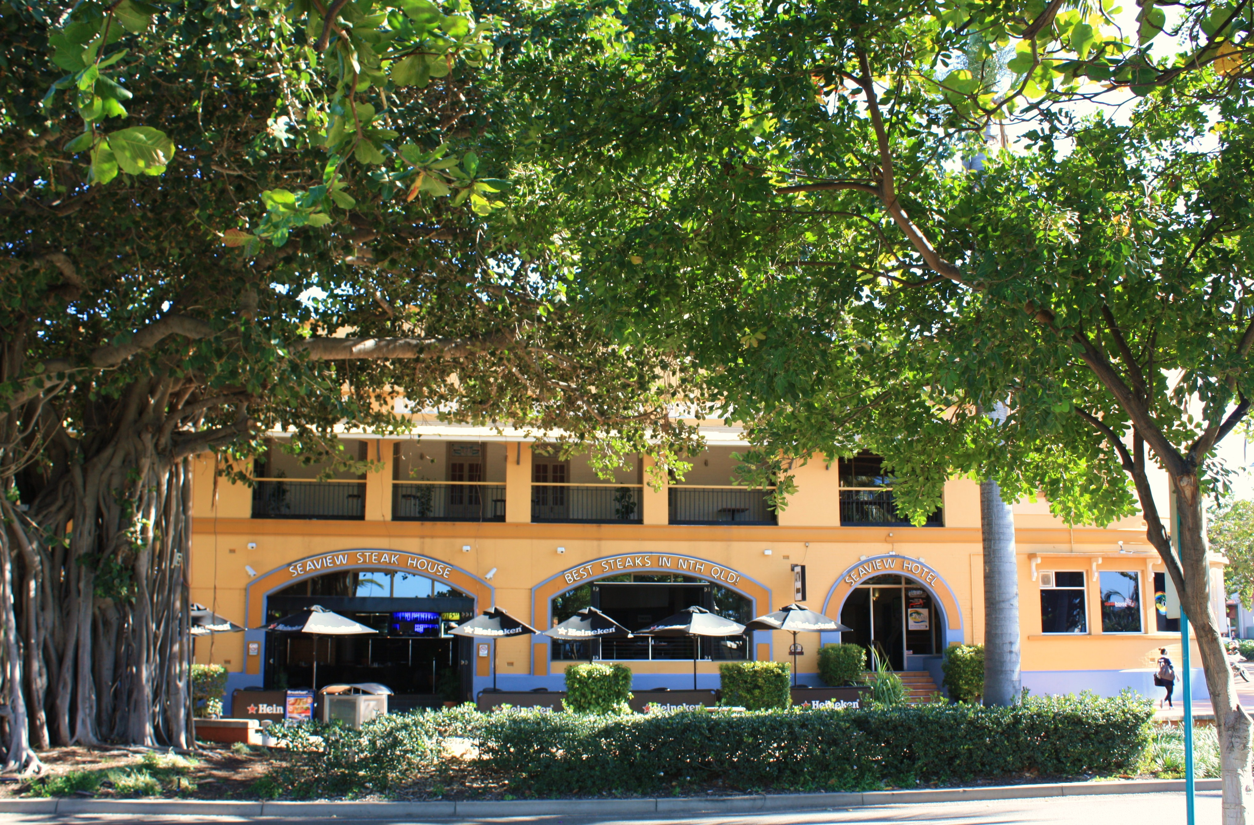 The Seaview Hotel was famous during World War II as an Australian Officers' Mess. The oldest part of the present building was designed by Townsville architect Joe Rooney in 1929, and it is one of very few remaining masonry hotels that were built in Townsville in the first half of the 20th century. It replaced the old timber hotel, built by Joe Rooney's ancestors in 1889, which was destroyed by fire. In the 19th century it was fashionable to build villa residences overlooking the sea along this part of the Strand. None of them survived, but the name of one, 'Seaview House', probably inspired the naming of the hotel.